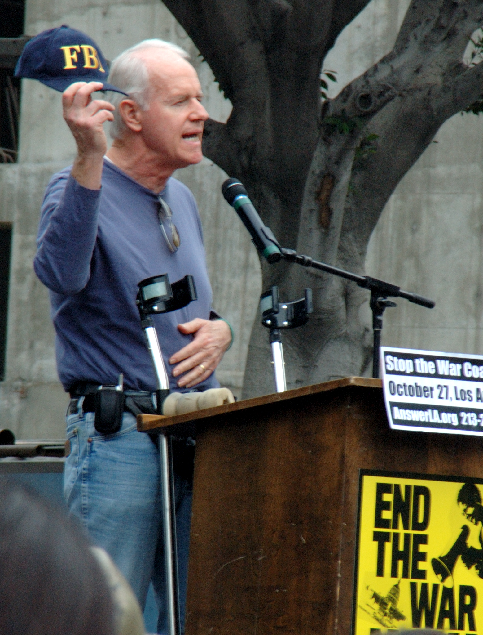 American actor Mike Farrell during an anti-war protest in October 2007.